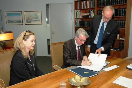 Signature of Bosnia Herzegovina by Safet Halilović of the Hague Convention on the International Recovery of Child Support and Other Forms of Family Maintenance at the Depositary (ministry of foreign affairs of the Netherlands) on July 5, 2011